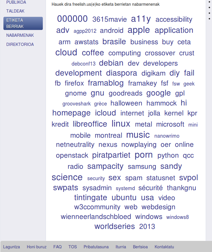 freelish.us; englis tags, basque localization